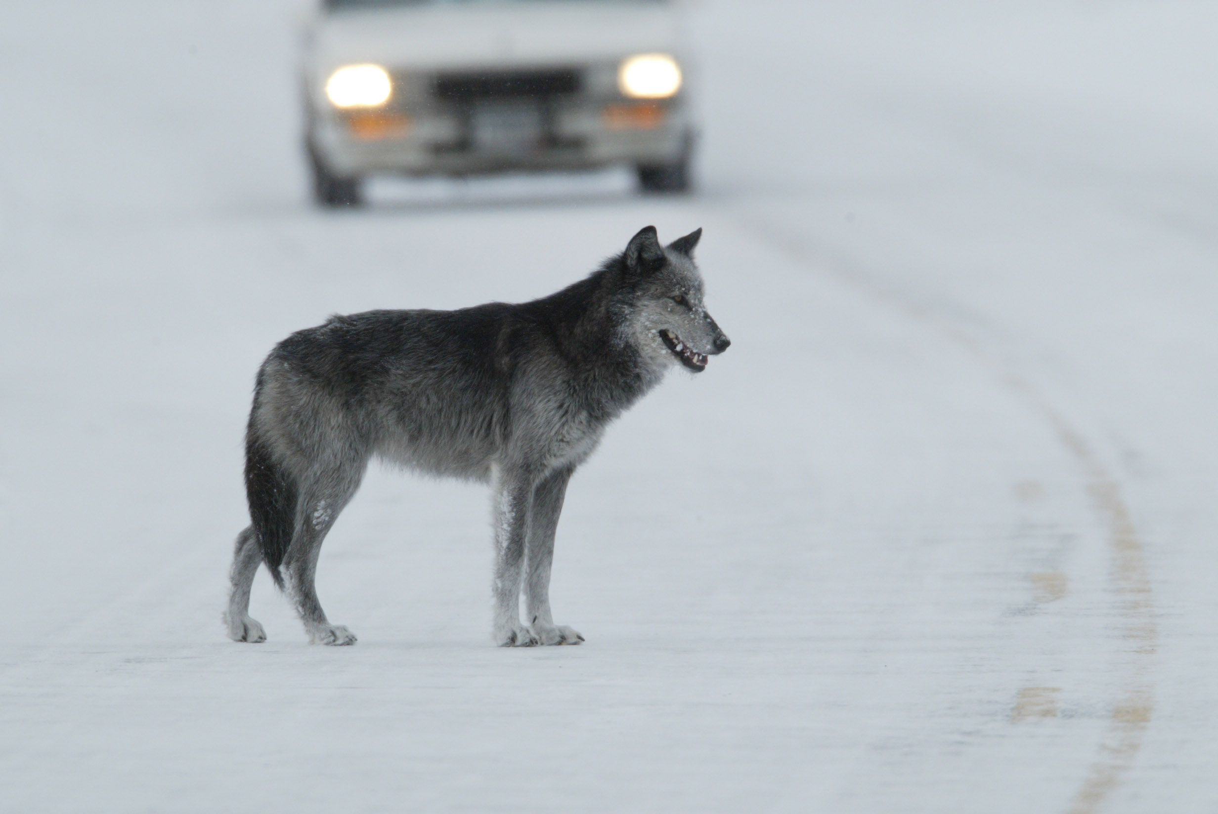 Black & grey female wolf in road near Lamar River bridge - named "Half Black"